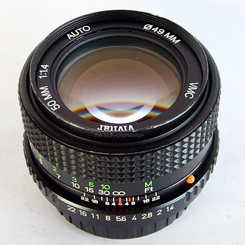 jpeg image